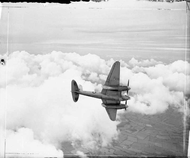 Royal Air Force Fighter Command, 1939-1945. De Havilland Mosquito Mark II, DD739 'RX-X', of No. 456 Squadron RAAF based at Middle Wallop, Hampshire, in flight and banking to port, away from the camera.